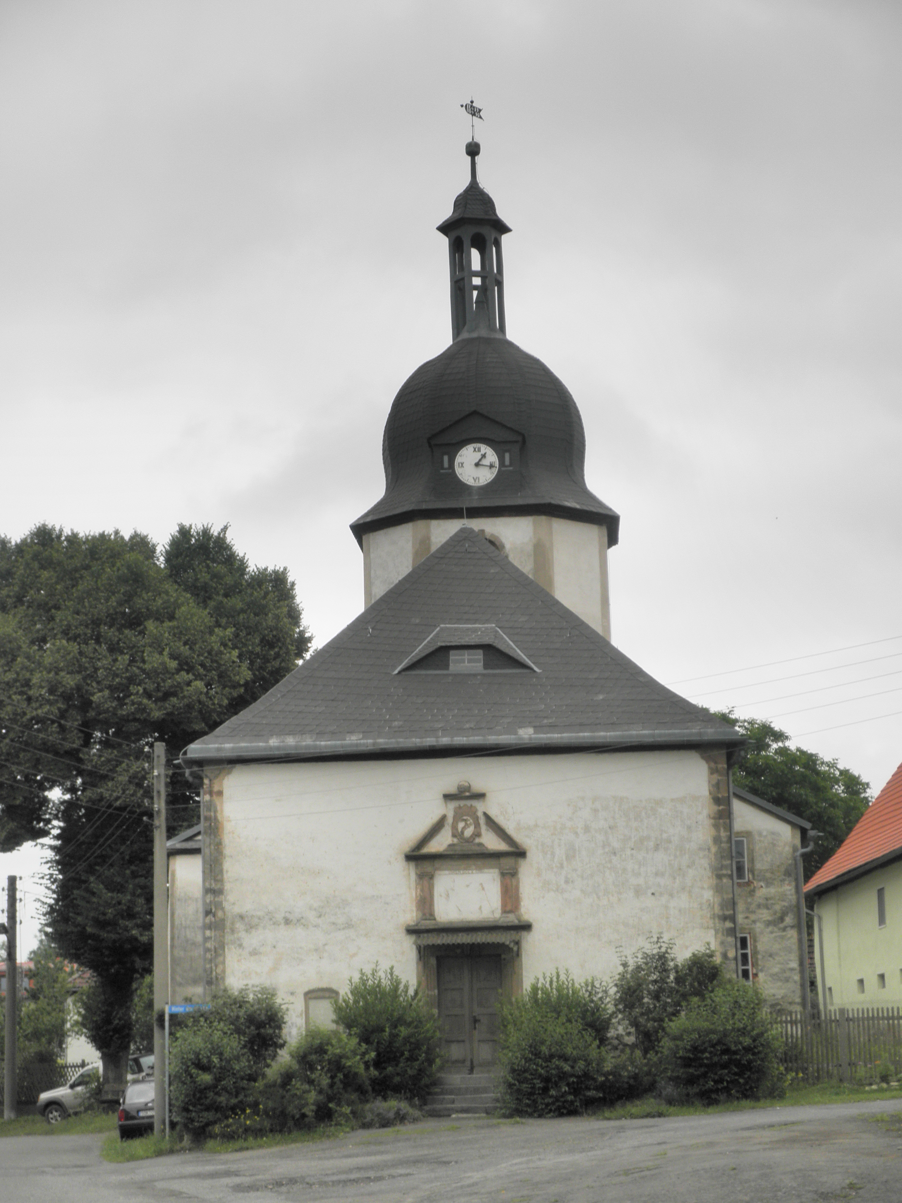 Church in Kolba (Oppurg) in Thuringia